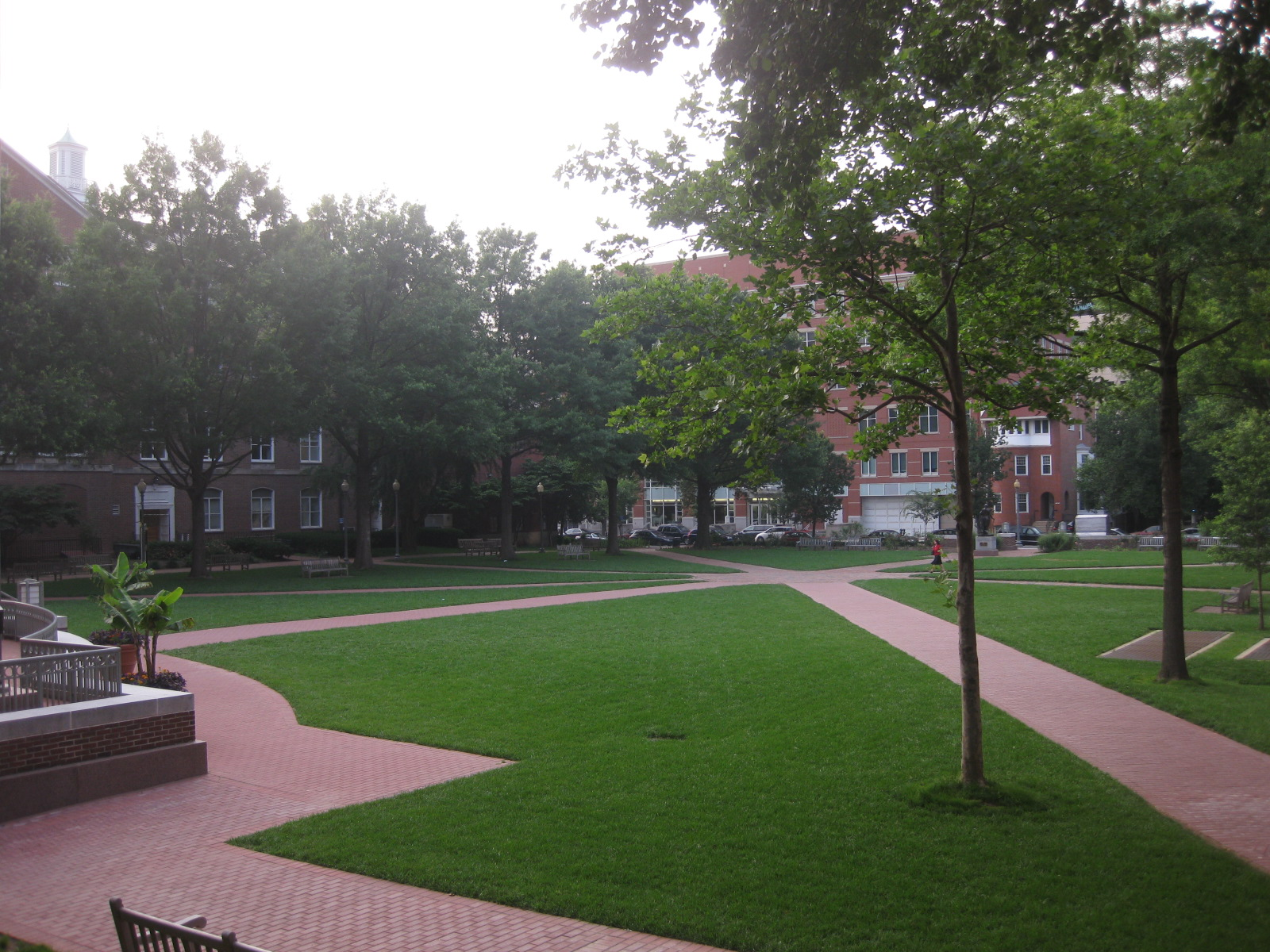 University Yard at the George Washington University looking toward the Media and Public Affairs building (right) and Corcoran Hall (left).